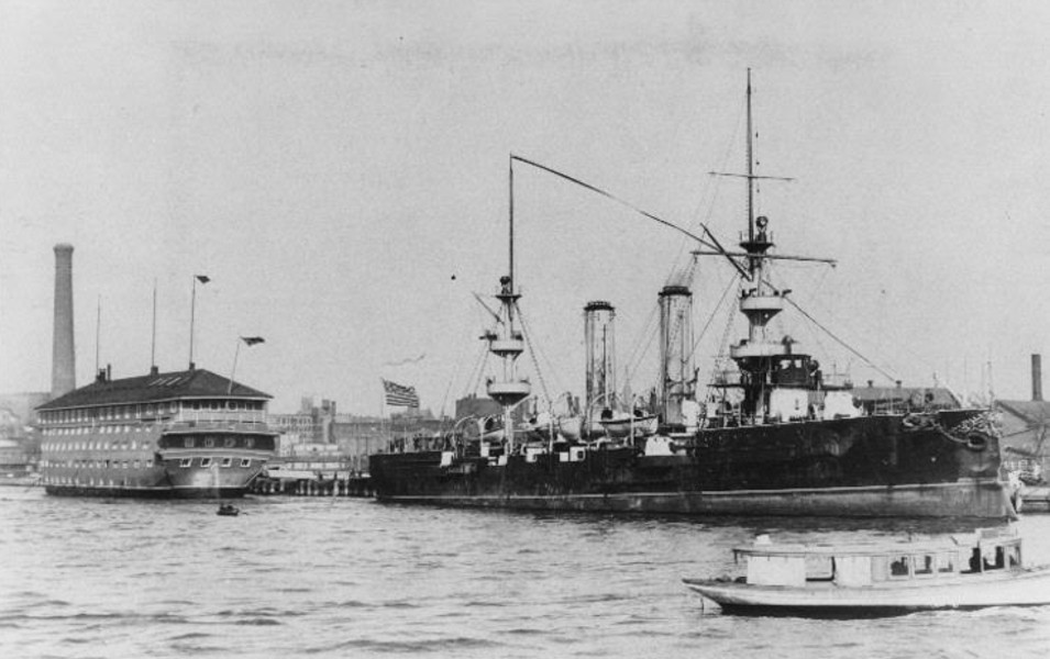 From U.S. Navy public domain Photo #: NH 75495 USS New Orleans (1898-1929) Docked at the New York Navy Yard, April 1898, immediately after her maiden voyage from England. The receiving ship USS Vermont is at left. Note New Orleans' extra-long commissioning pennant. U.S. Naval Historical Center Photograph.